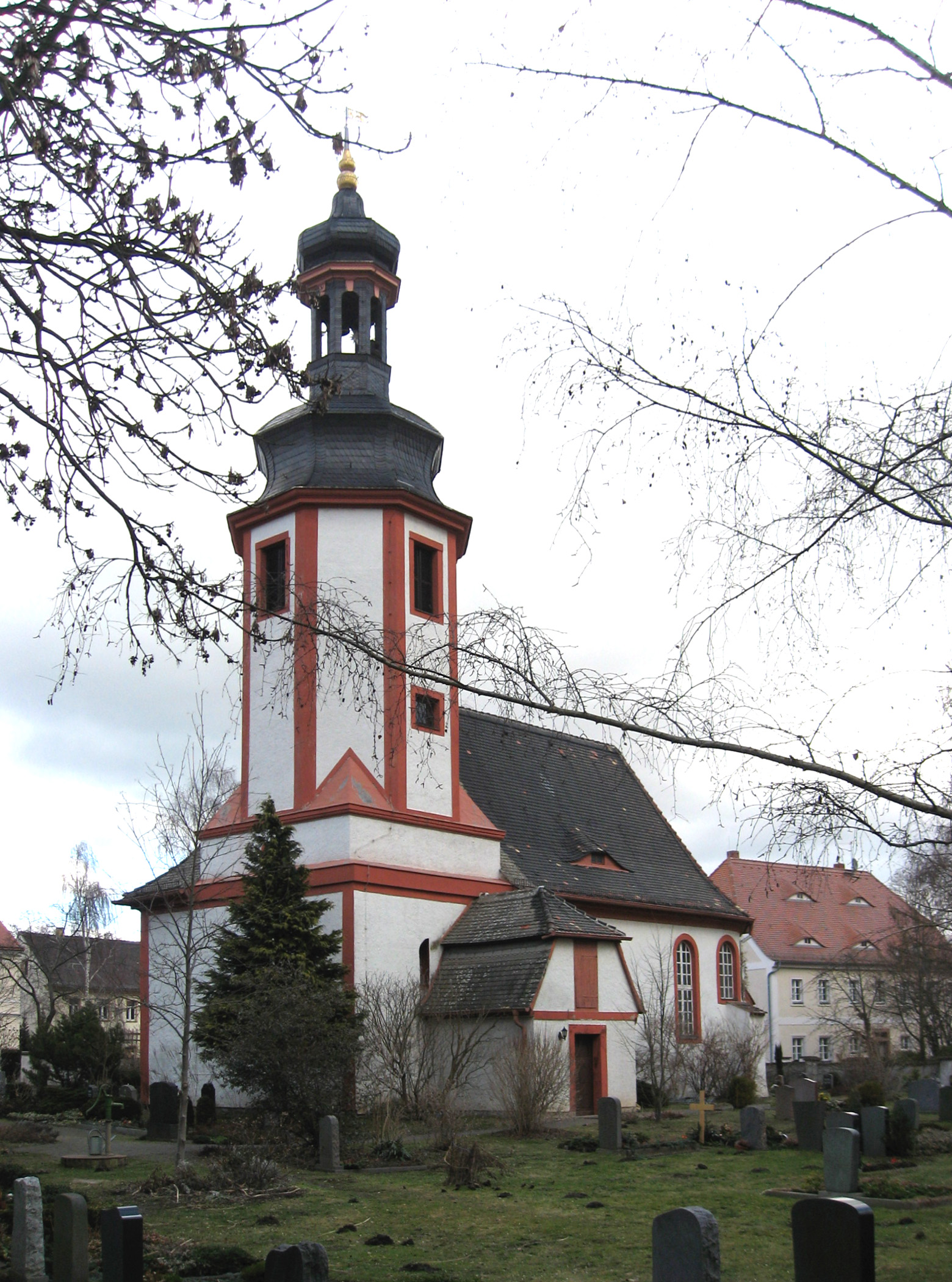 St Martin's Church in Leipzig-Plaussig, Grundstrasse 17